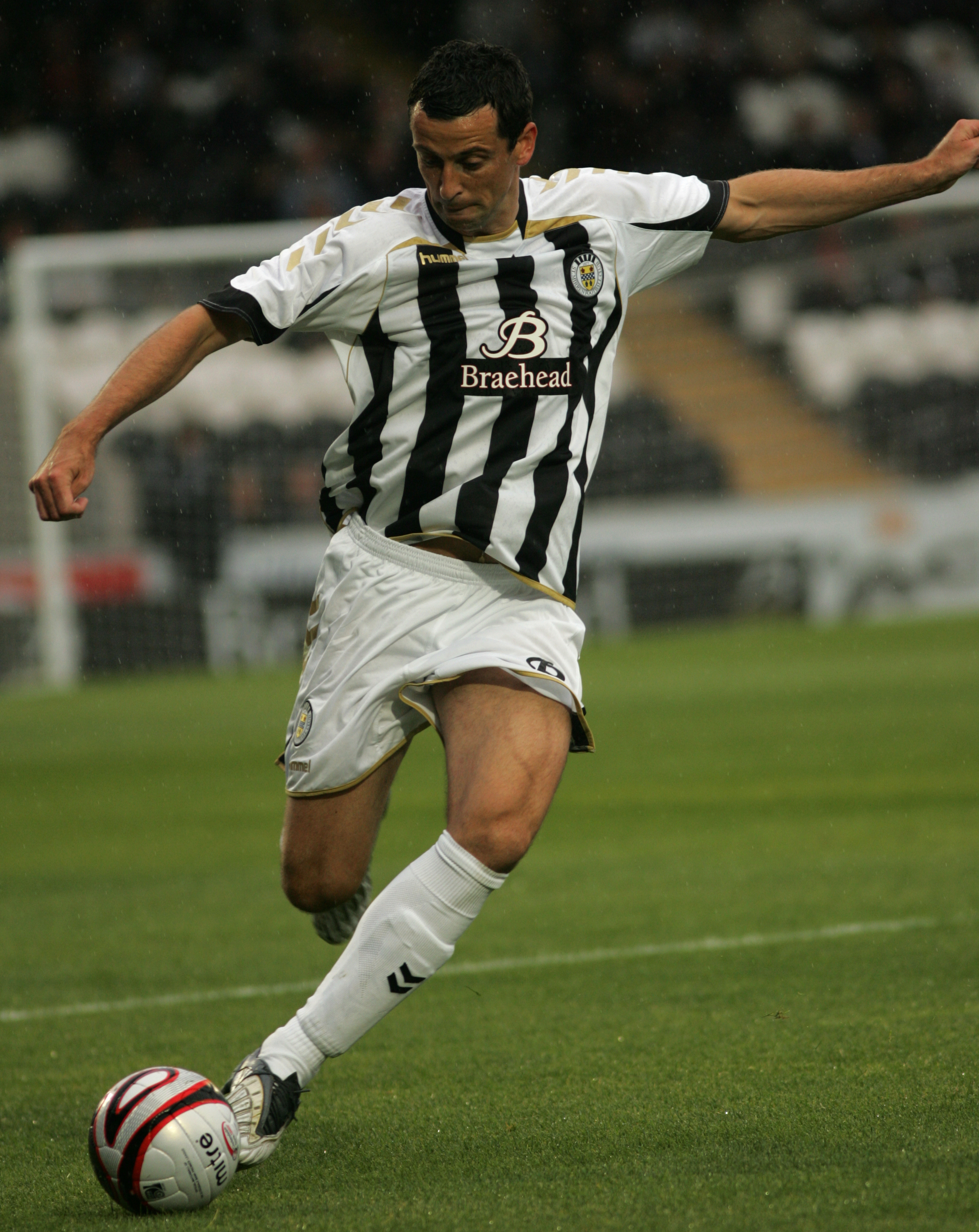 Jack Ross, St. Mirren Right Back Greenock Morton (1) vs (2) St Mirren - Renfrewshire Cup Final 09'